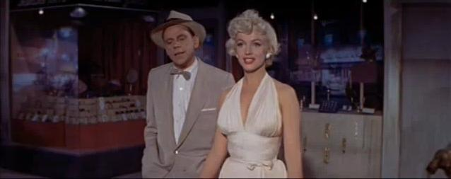 Marilyn Monroe's skirt blows upwards in the theatrical trailer of the 1955 film The Seven Year Itch directed by Billy Wilder.